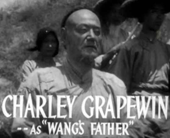 Cropped screenshot of Charley Grapewin from the trailer for the film The Good Earth